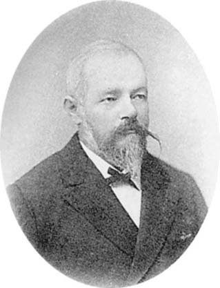 J. Scriba, Professor of Surgery.